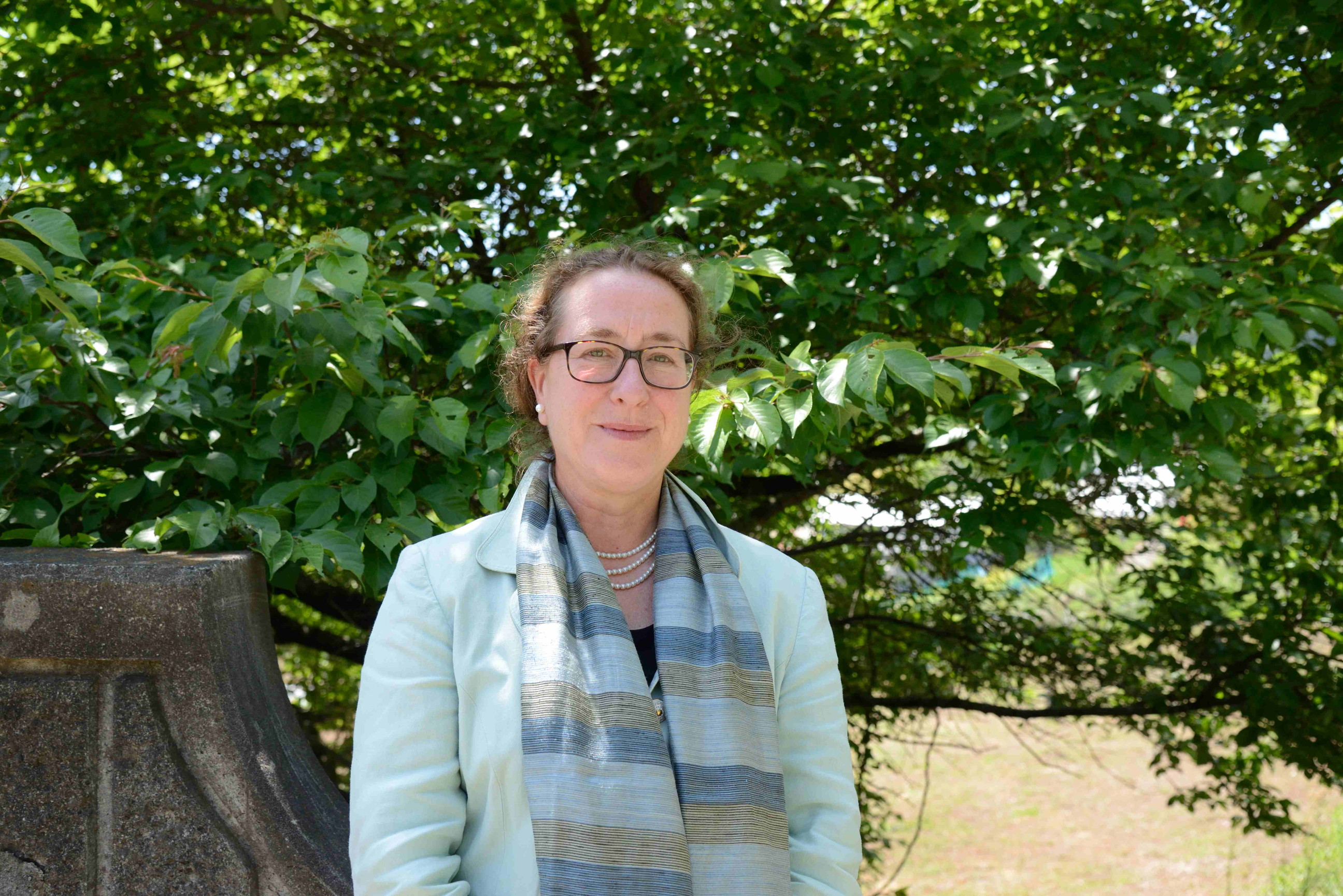 Nana Göbel at Asian World Teacher Conference